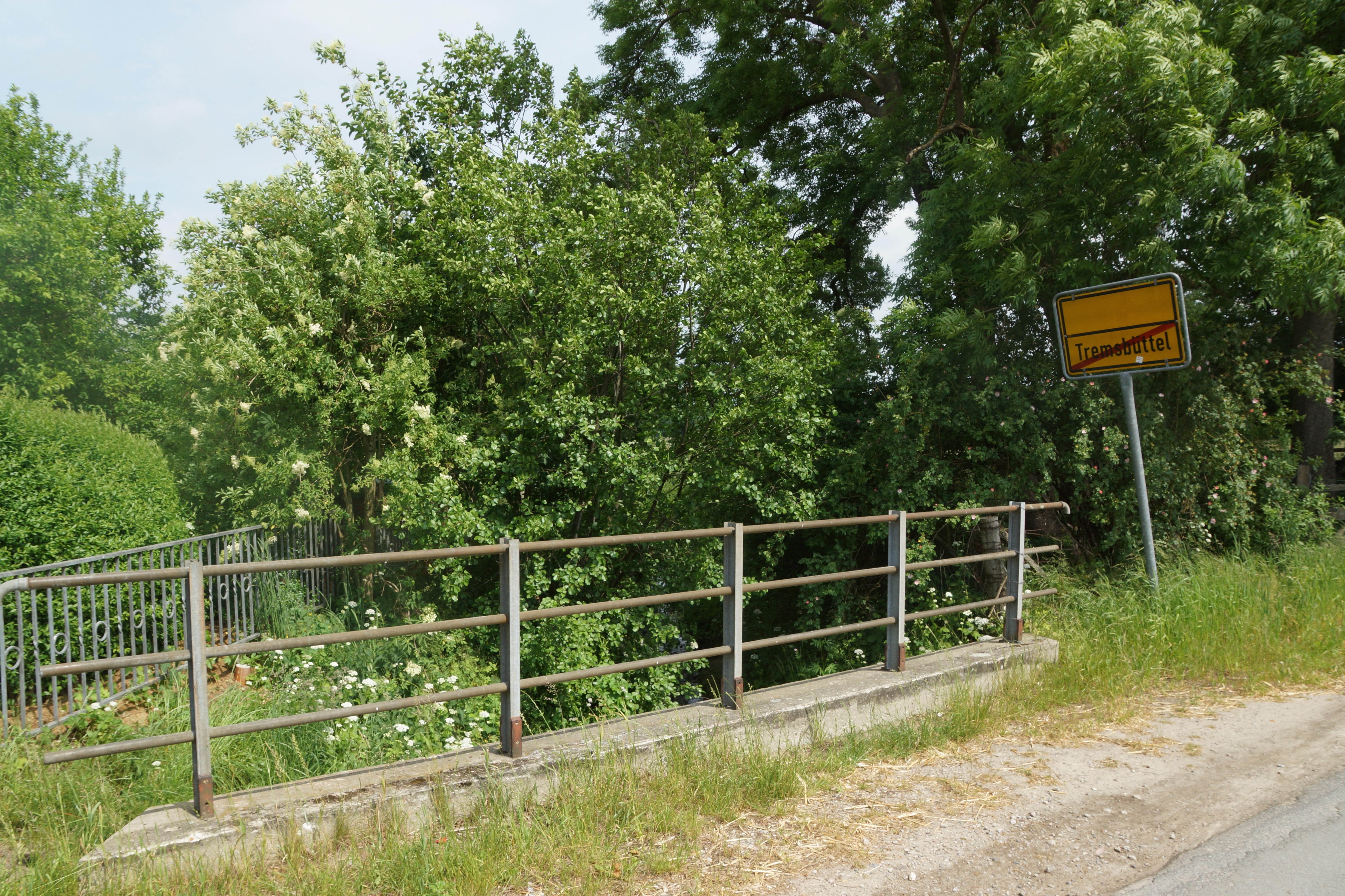 Tremsbüttel, Germany: The river Lüttbeek at the Grünengrasen